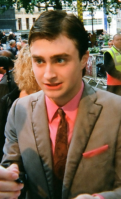 British actor Daniel Radcliffe at the London premiere of Harry Potter and the Half-Blood Prince